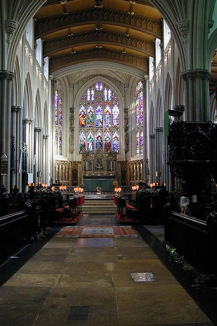 St Peter, Leeds Parish Church - East end